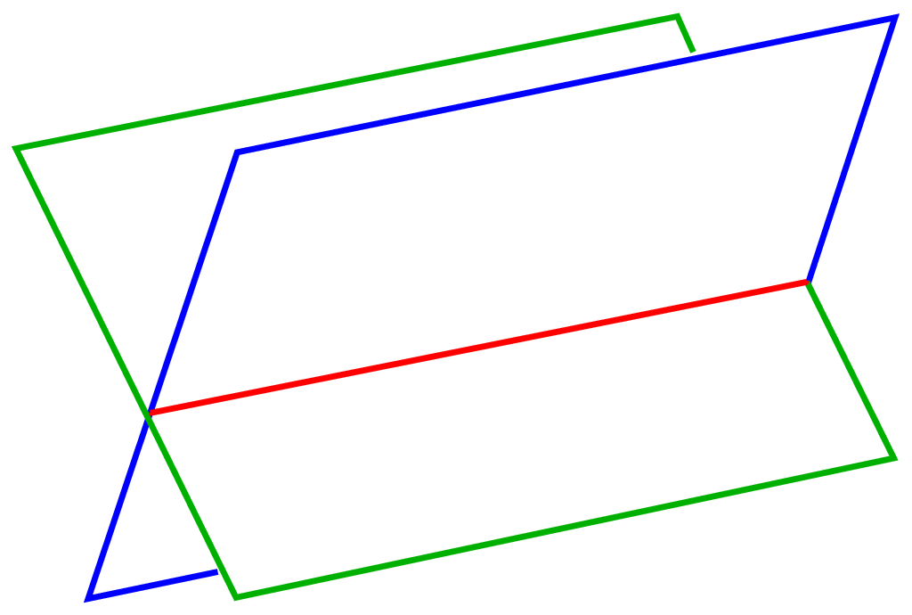 Intersection of two planes